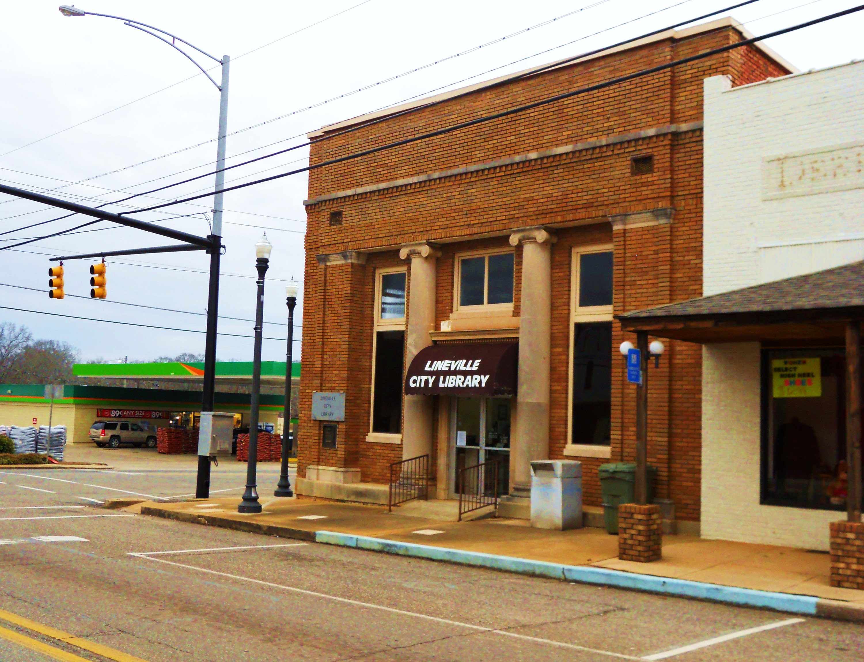 This is a photo of the Lineville Public Library in Lineville, Alabama.